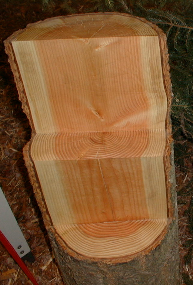 Pseudotsuga menziesii (Coast Douglas-fir): Cut through treetrunk; photograph of an item shown at an educational fair.